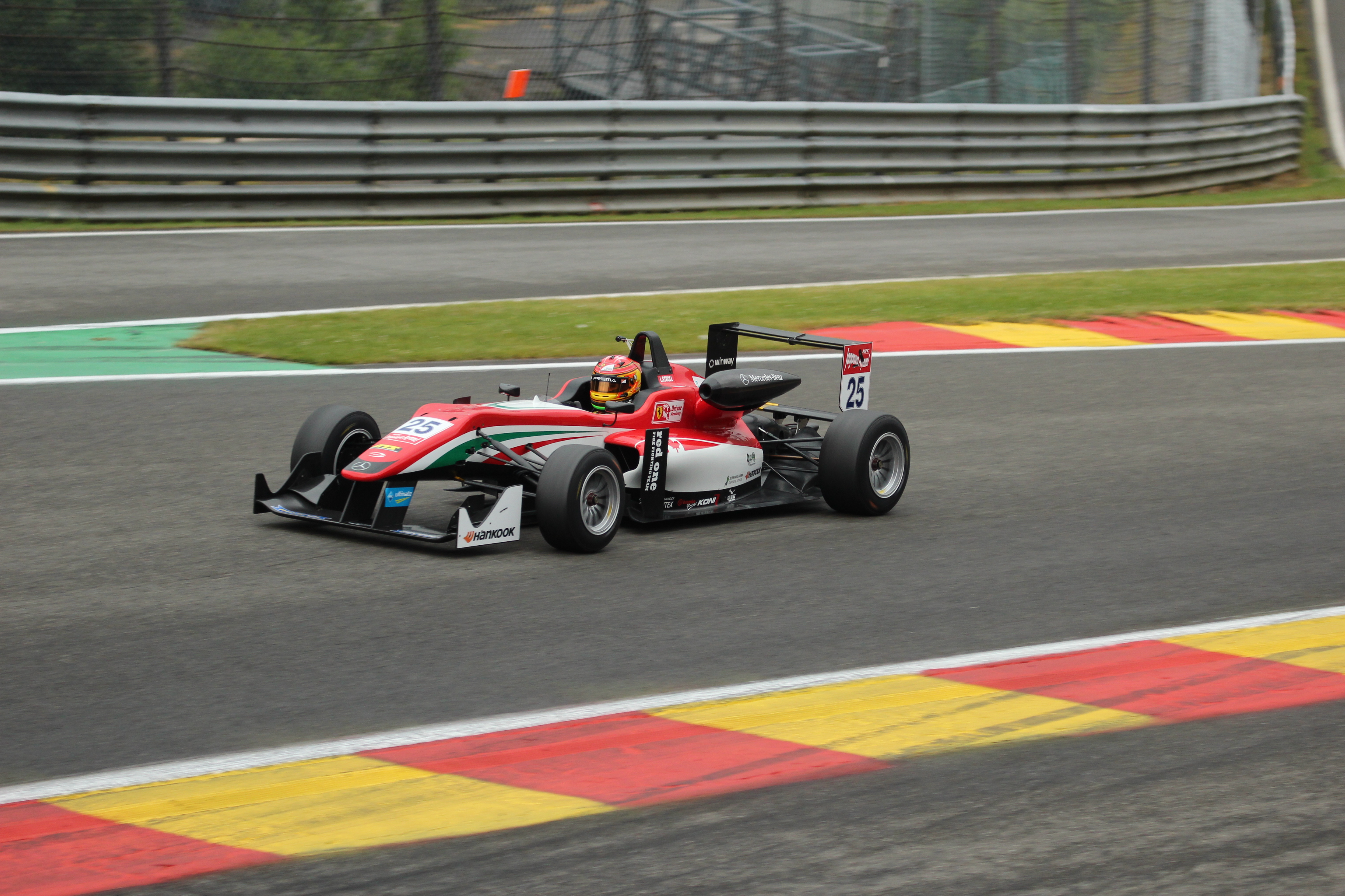 Lance Stroll at Spa in 2015, European Formula 3 Championship